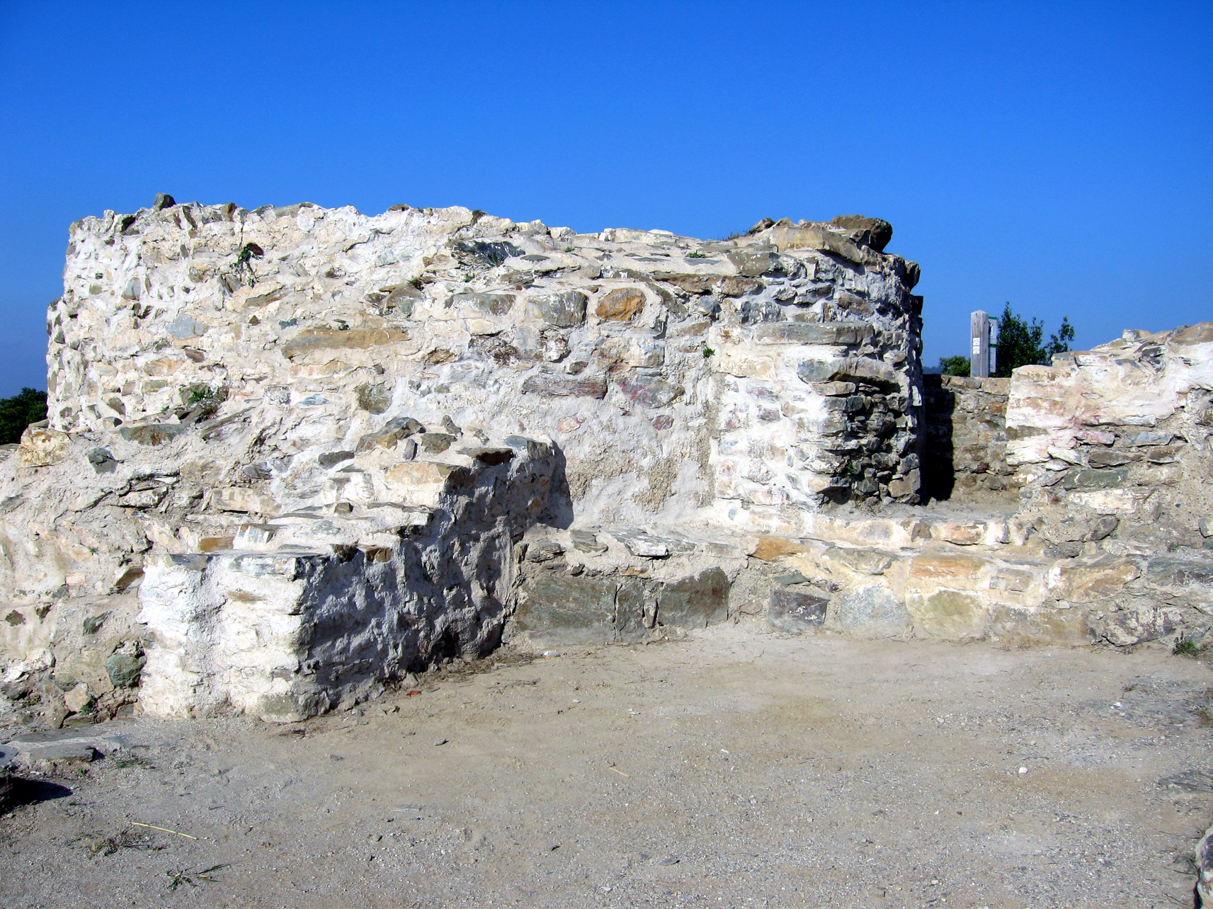 The “Penya del Moro” in the Serra de Collserola (Sant Just Desvern, Catalonia).